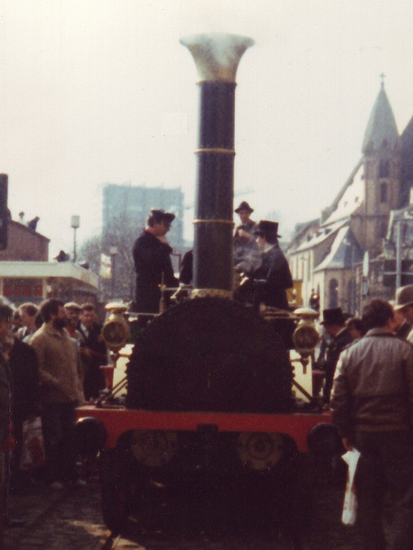 first steam locomotive in Germany Adler (reproduction of 1935), front view, at the Eiserner Steg on the Frankfurt City Link Line, Frankfurt am Main, Germany, May 1985